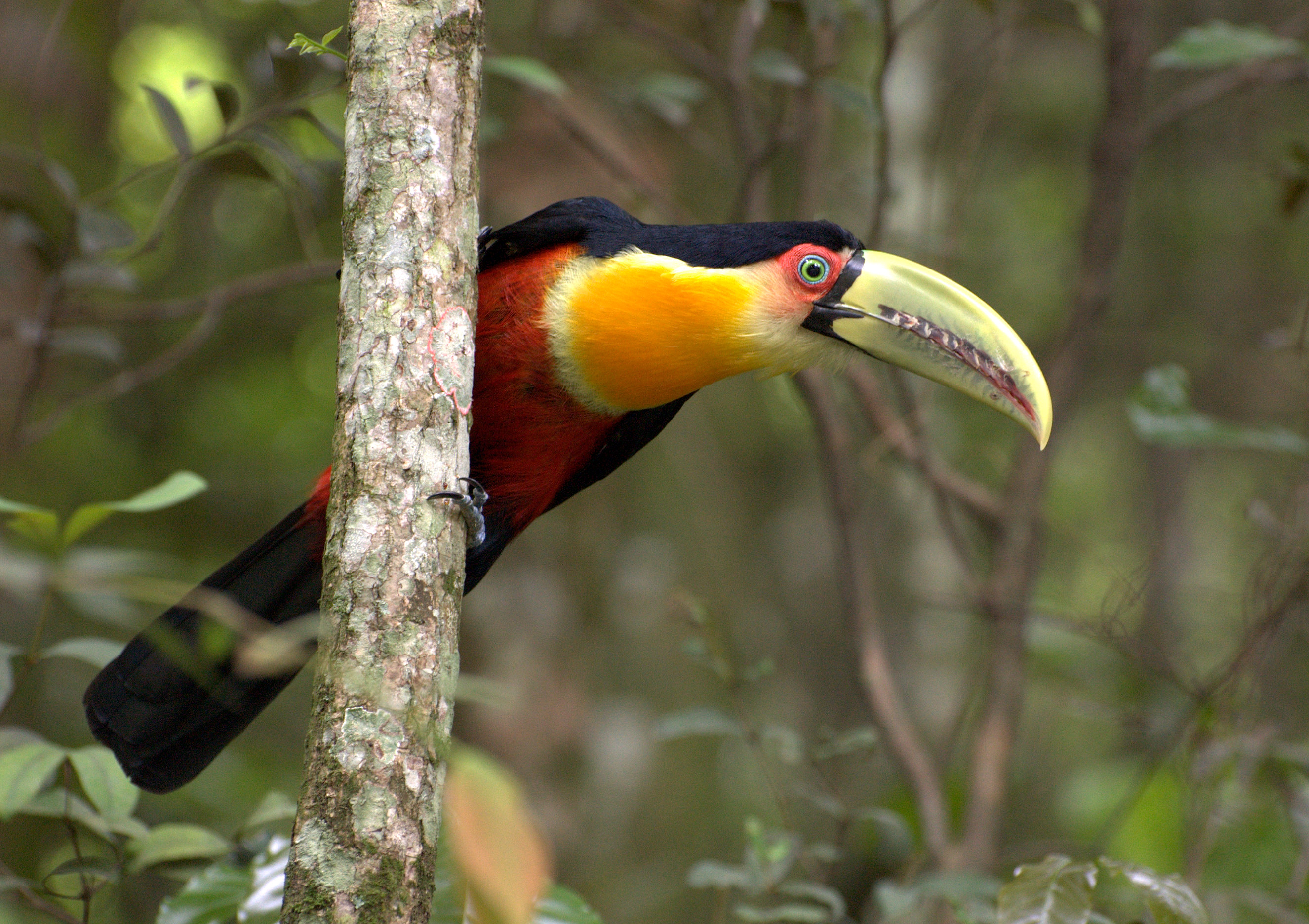 Red-breasted Toucan (also known as the Green-billed Toucan) at Parque Estadual da Serra da Cantareira, São Paulo-SP, Brasil.